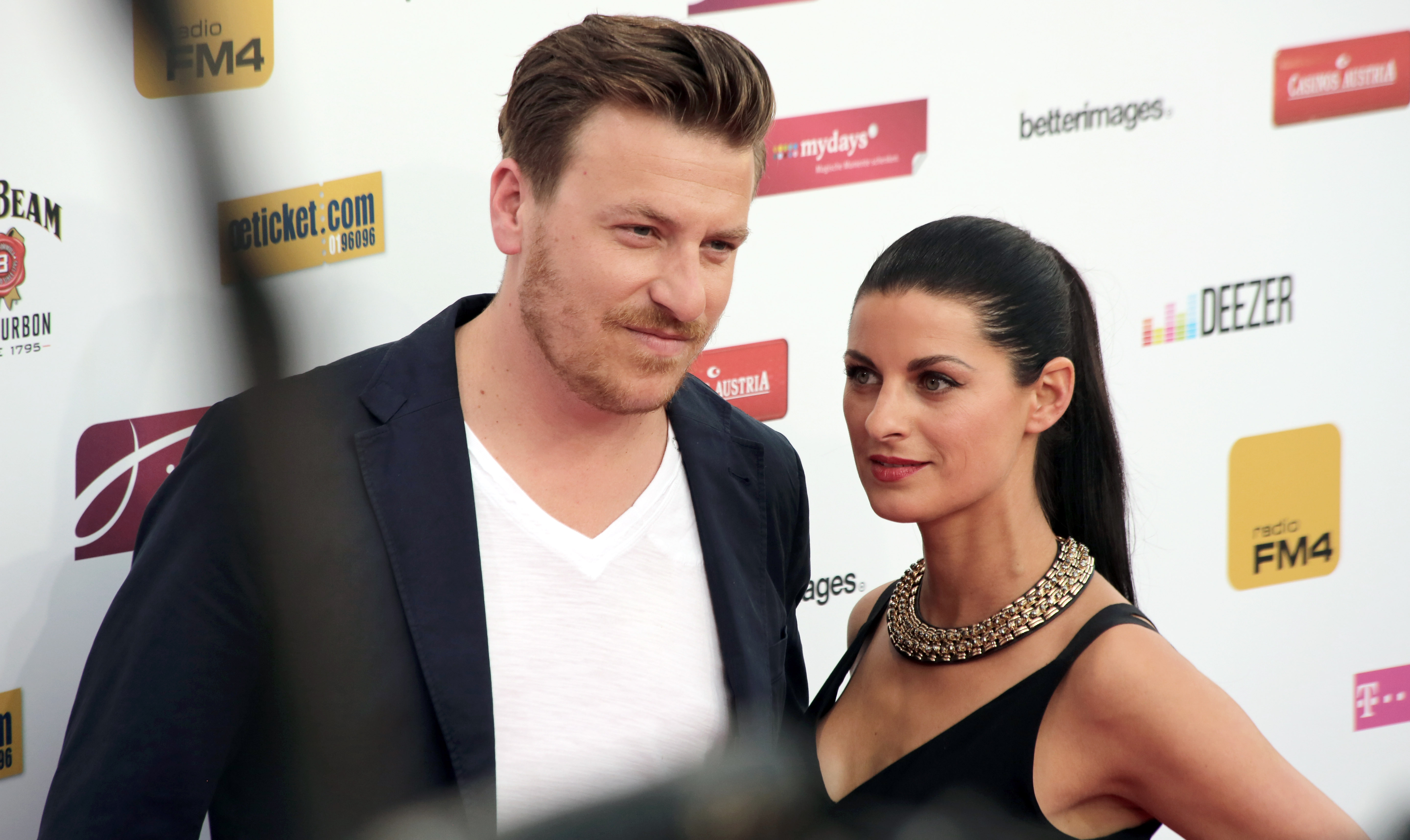 Parov Stelar and Lilja Bloom at the Amadeus Austrian Music Award at Volkstheater in Vienna